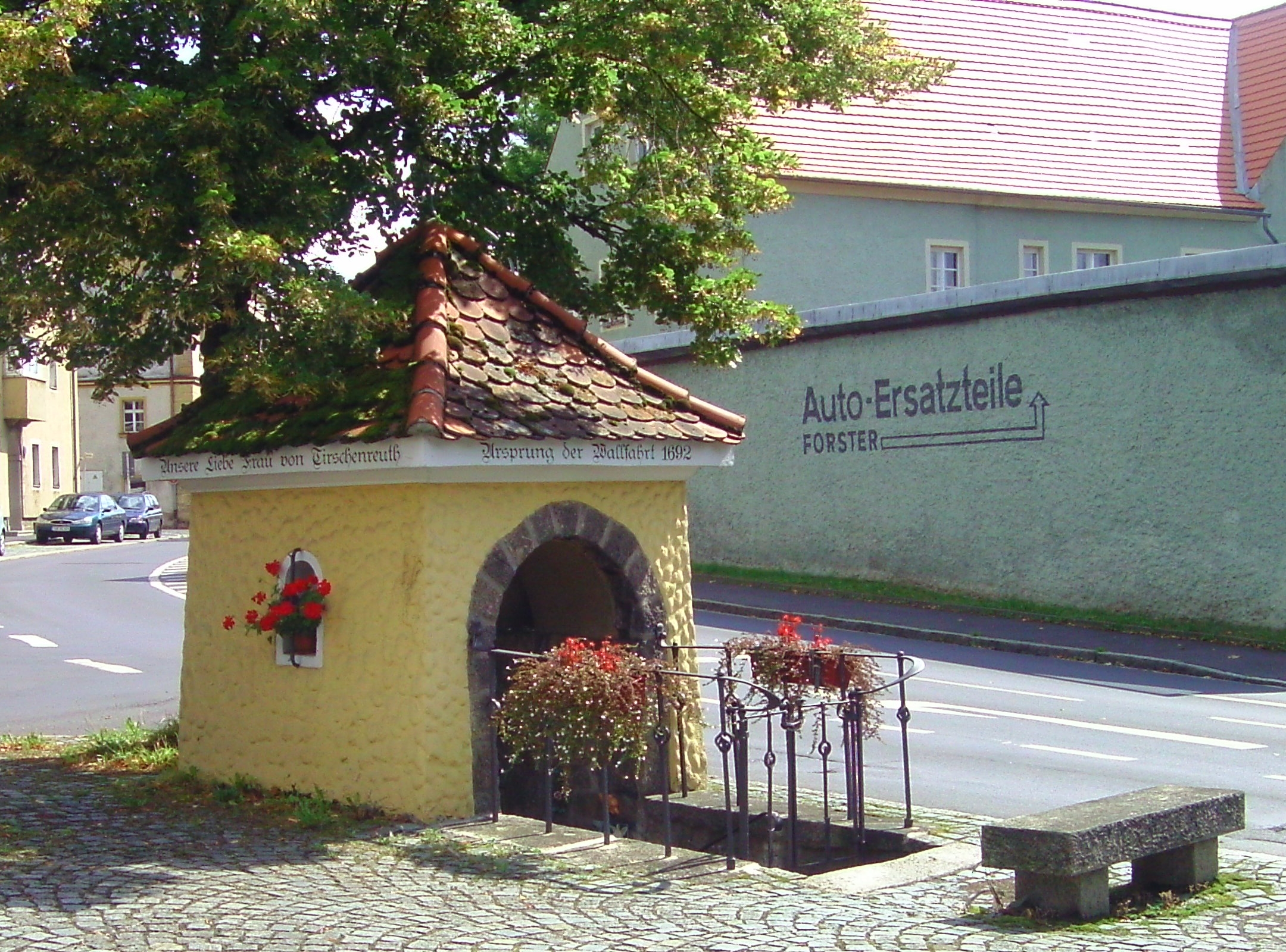 Murschrott-chapel in Tirschenreuth